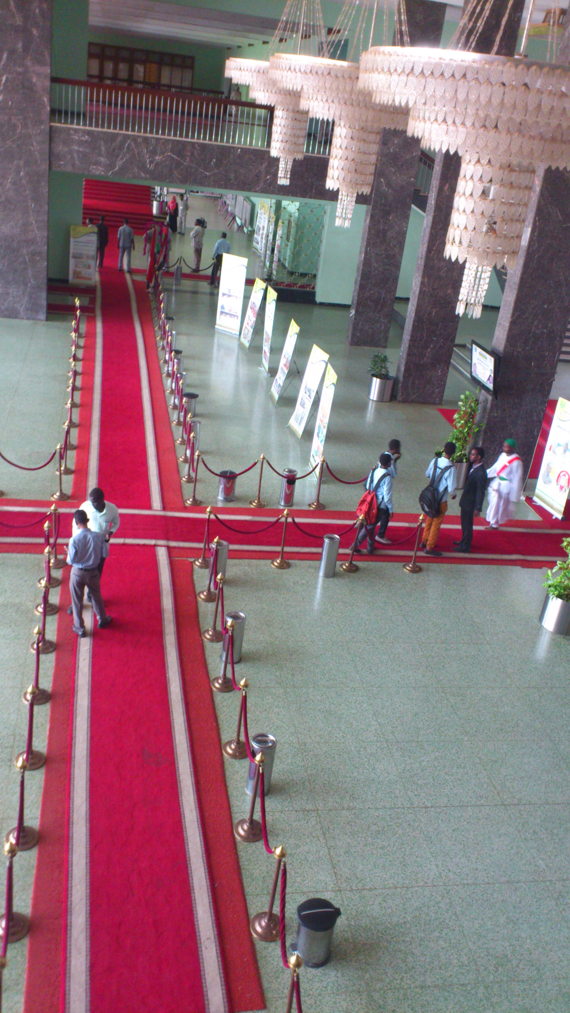 Entrance of the friendship hall